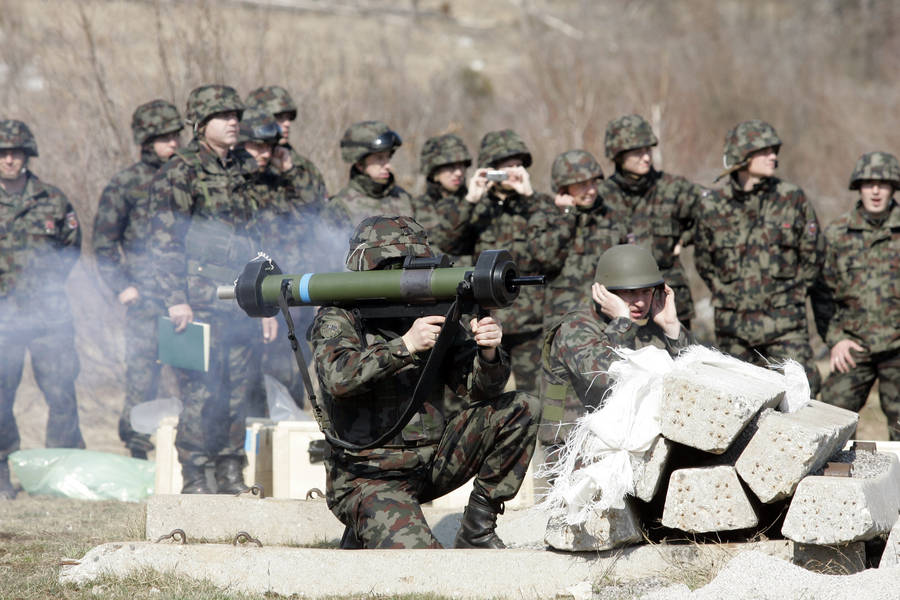 Slovenian soldier with RGW 90 (MATADOR)